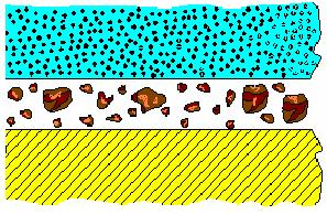 basic principle of lapping